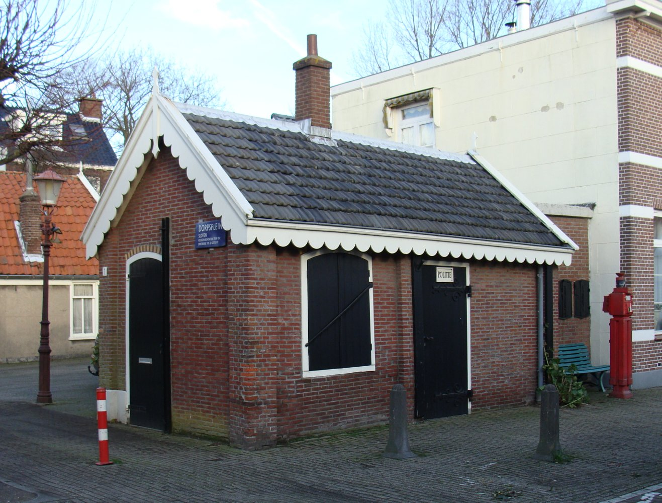 Old police station in the village of Sloten, near Amsterdam, the Netherlands